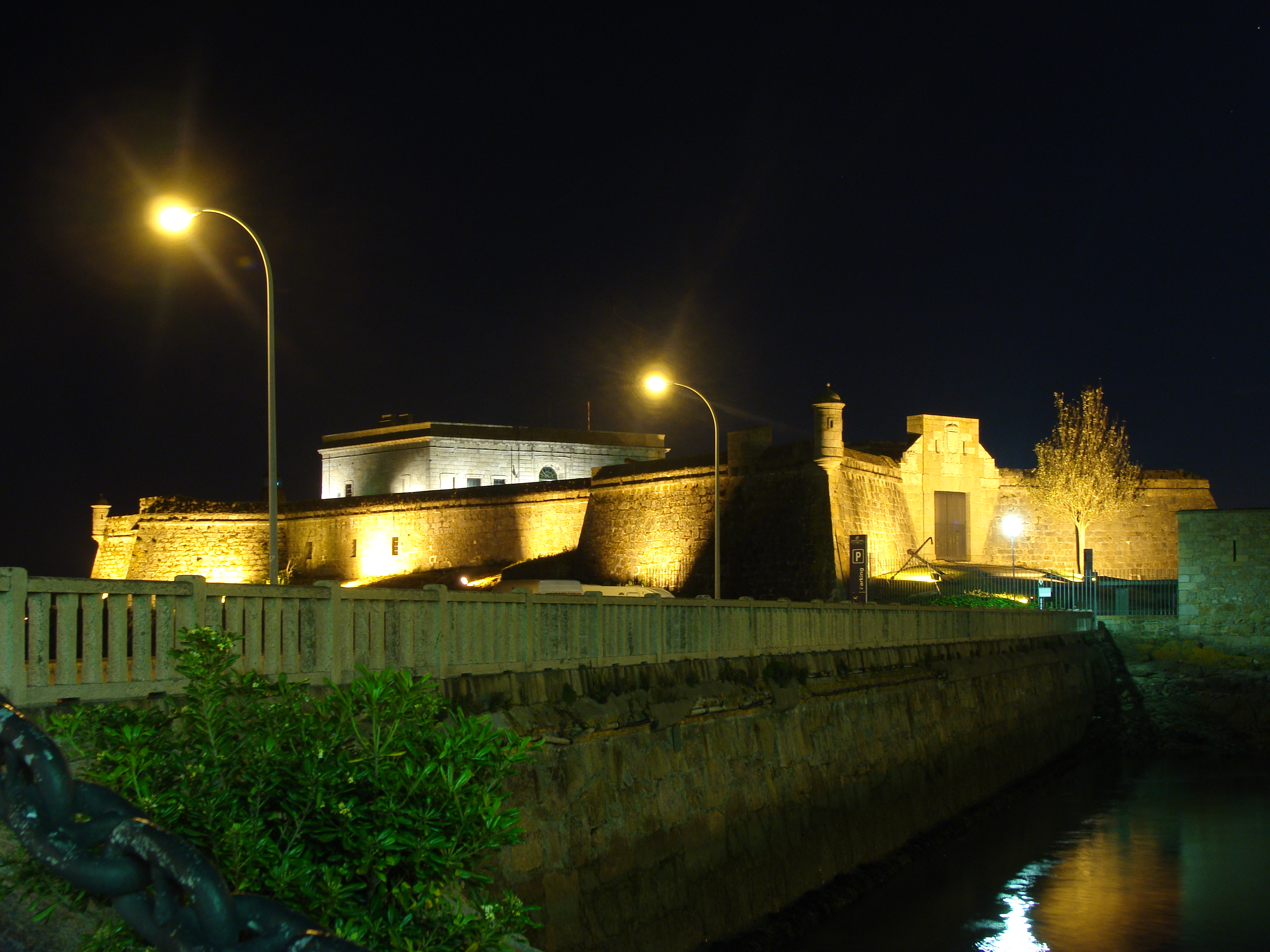 Castle of Saint Antón of Corunna